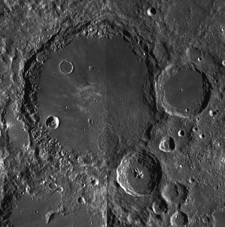 LRO WAC. East rim of Leibnitz overlaid by 87-km Davisson at right and 72-km Finsen at lower right